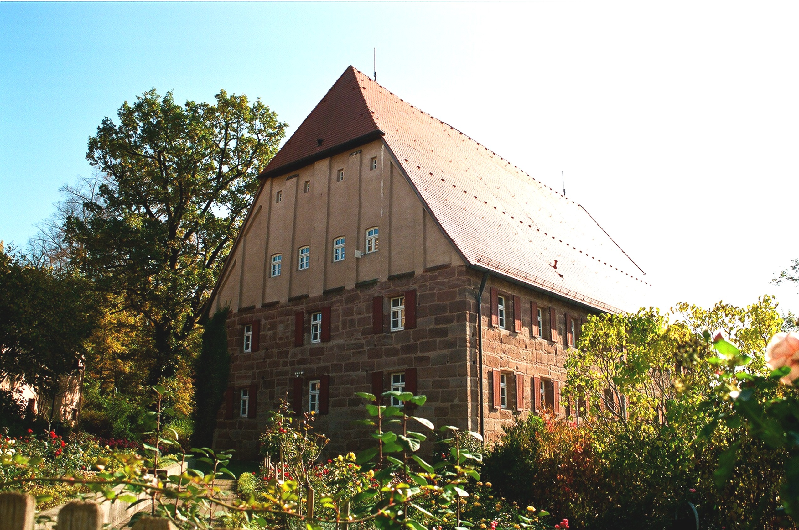 Hilpoltstein, the Traidkasten